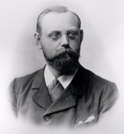 German Oceanographer